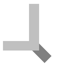 Buttress type (ground plan) , based on information at [1] and [2]